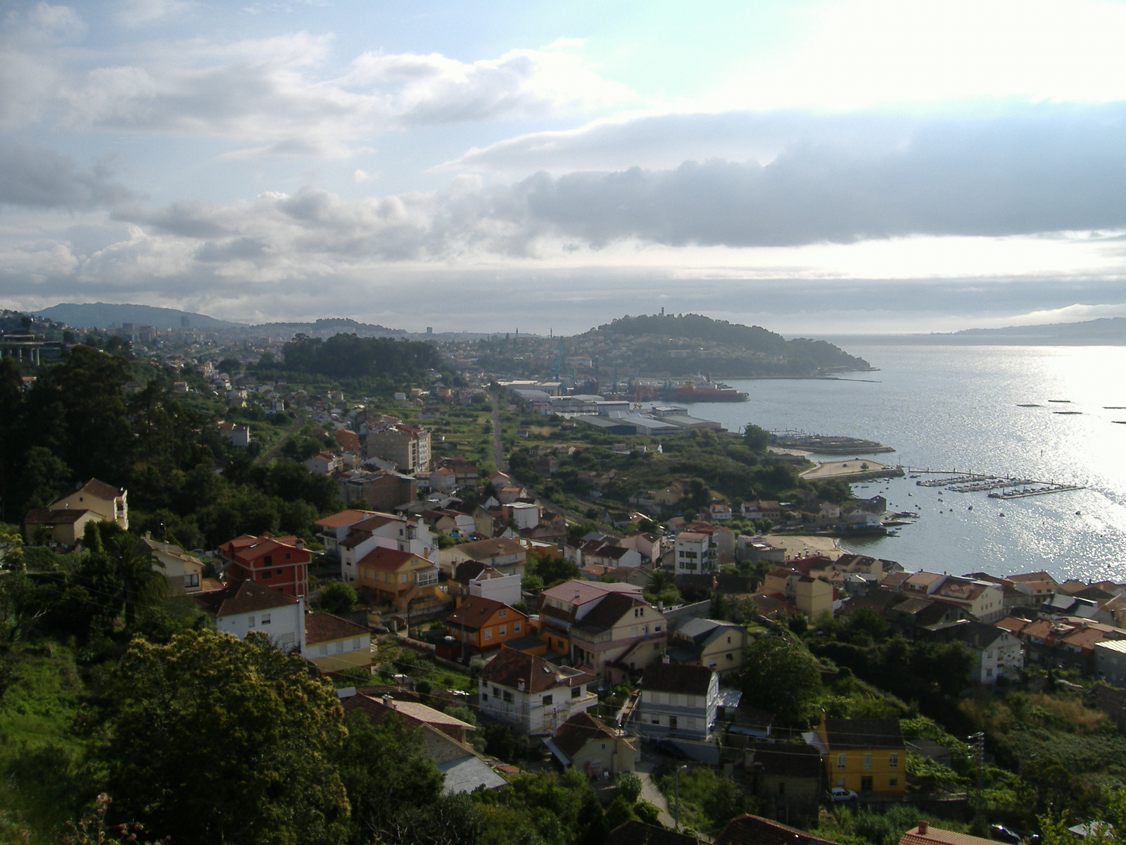 View of Chapela, as seen from the Pinar do Crego, in the distance the hill of La Guía, in Vigo.